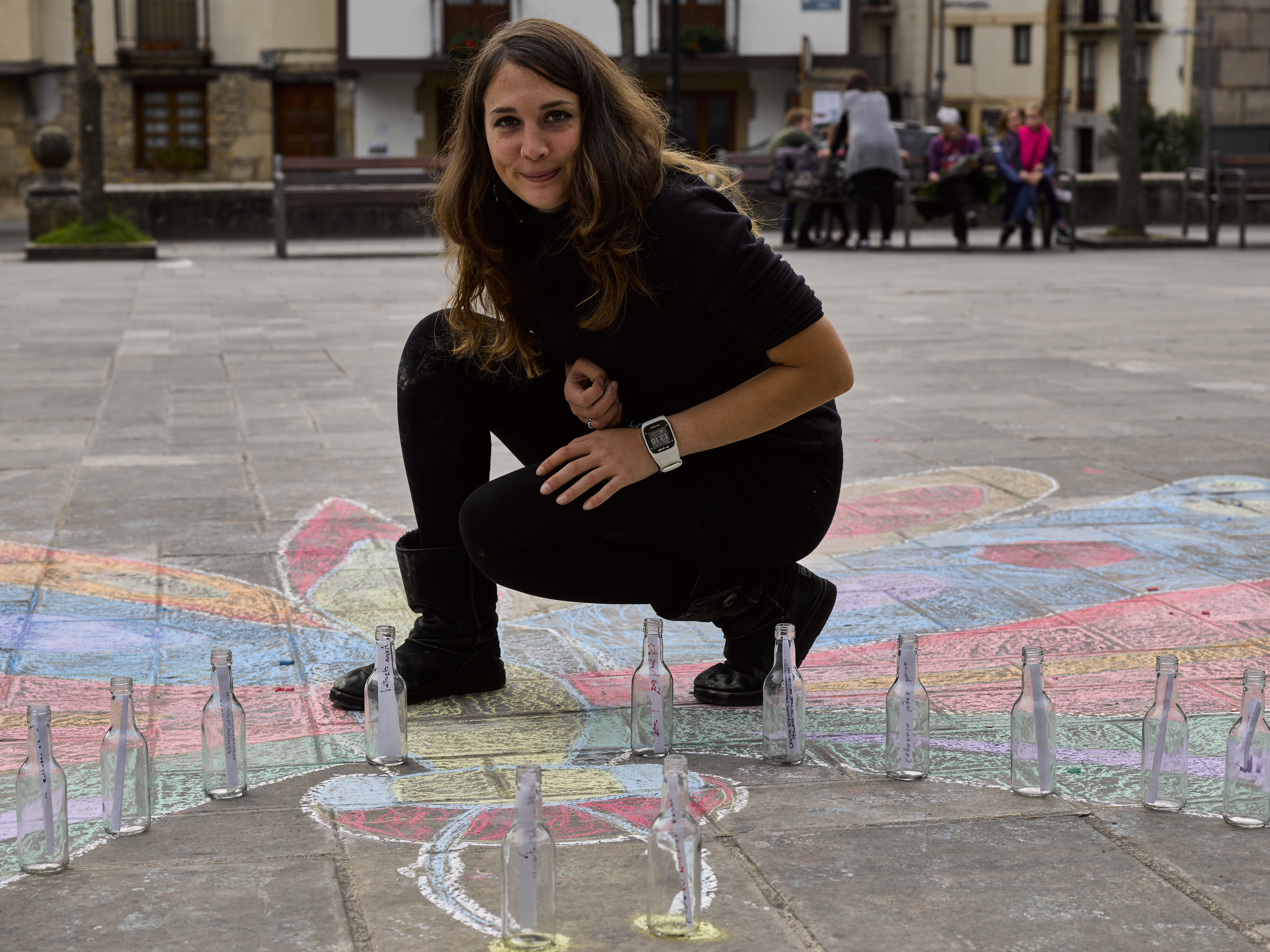 Irantzu Lekue, basque contemporary artist duraing an installation art exhibition